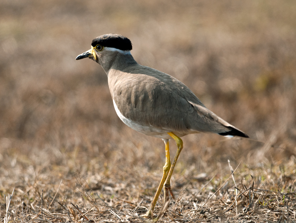 Yello-watteld Lapwing (Vanellus malabaricus) frequent dry scrubs, wastelends and fallow fields in the countryside and even some developing colonies and vacant fields in suburbs. This specimen was captured in the flats behind Sultanpur National Park in today's outing with my 500mm lens.